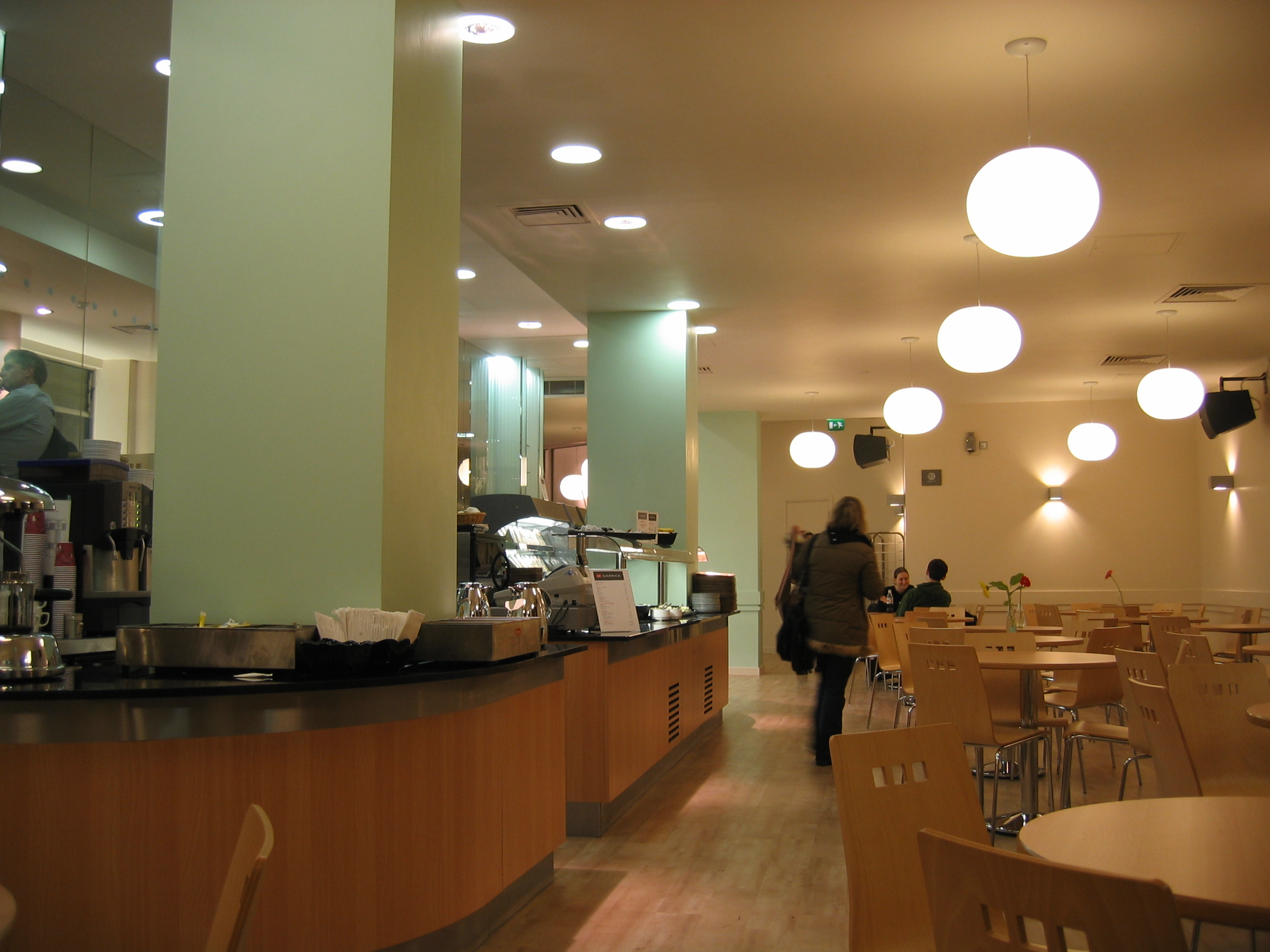 LSE Cafe-Garrick